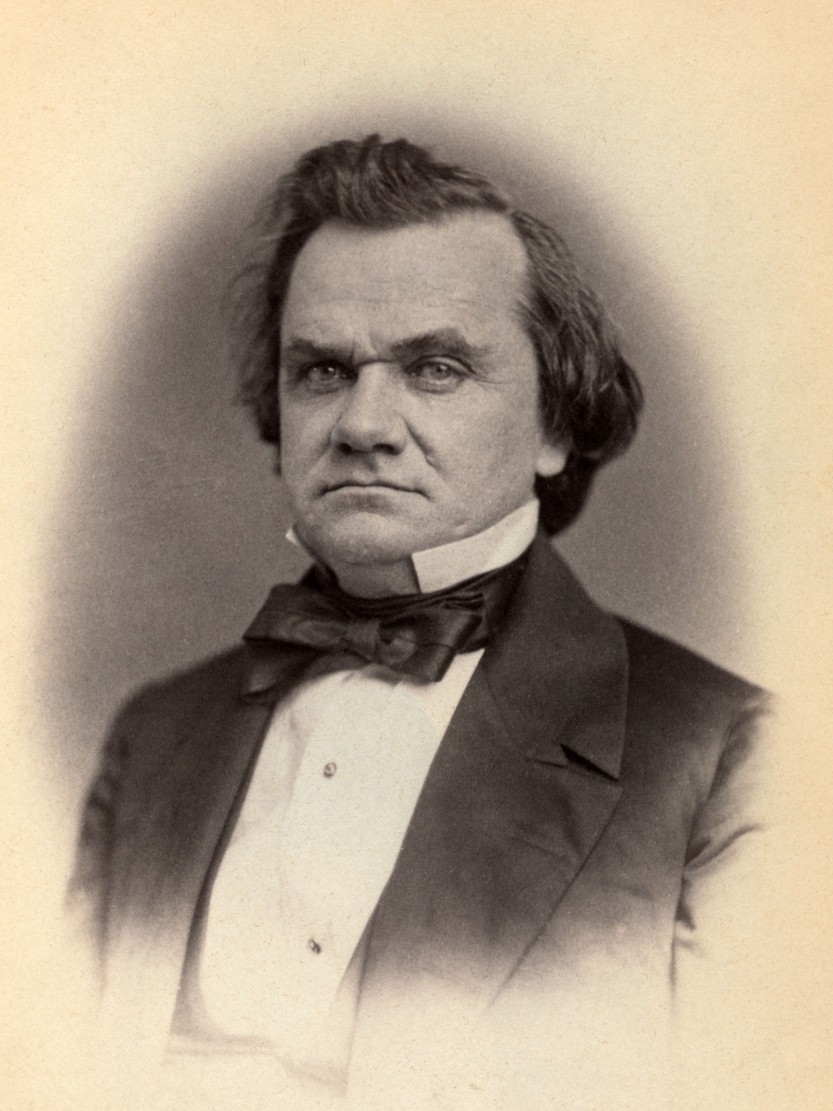 Stephen A. Douglas, Senator from Illinois, Thirty-fifth Congress, half-length portrait This is a retouched picture, which means that it has been digitally altered from its original version. Modifications: cropped, removed minor artifacts, adjusted levels. Modifications made by Scewing.